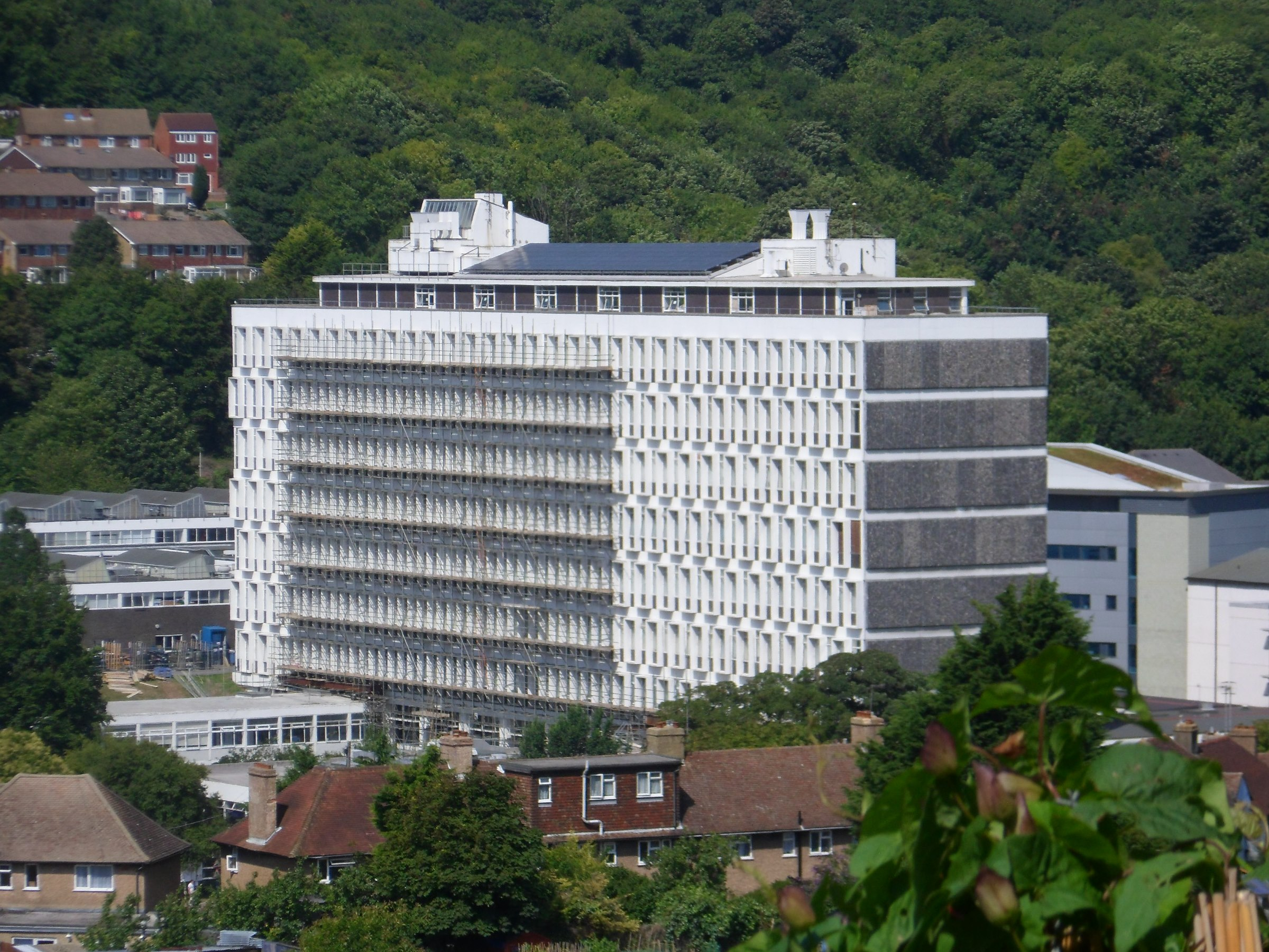 Cockcroft Building, Lewes Road, Brighton, City of Brighton and Hove, England. Built in 1962–63 for Brighton Polytechnic (now the University of Brighton). It is now one of the University's main buildings. This picture was taken from the footpath between Birling Close and Natal Road in the Bear Road area of the city.